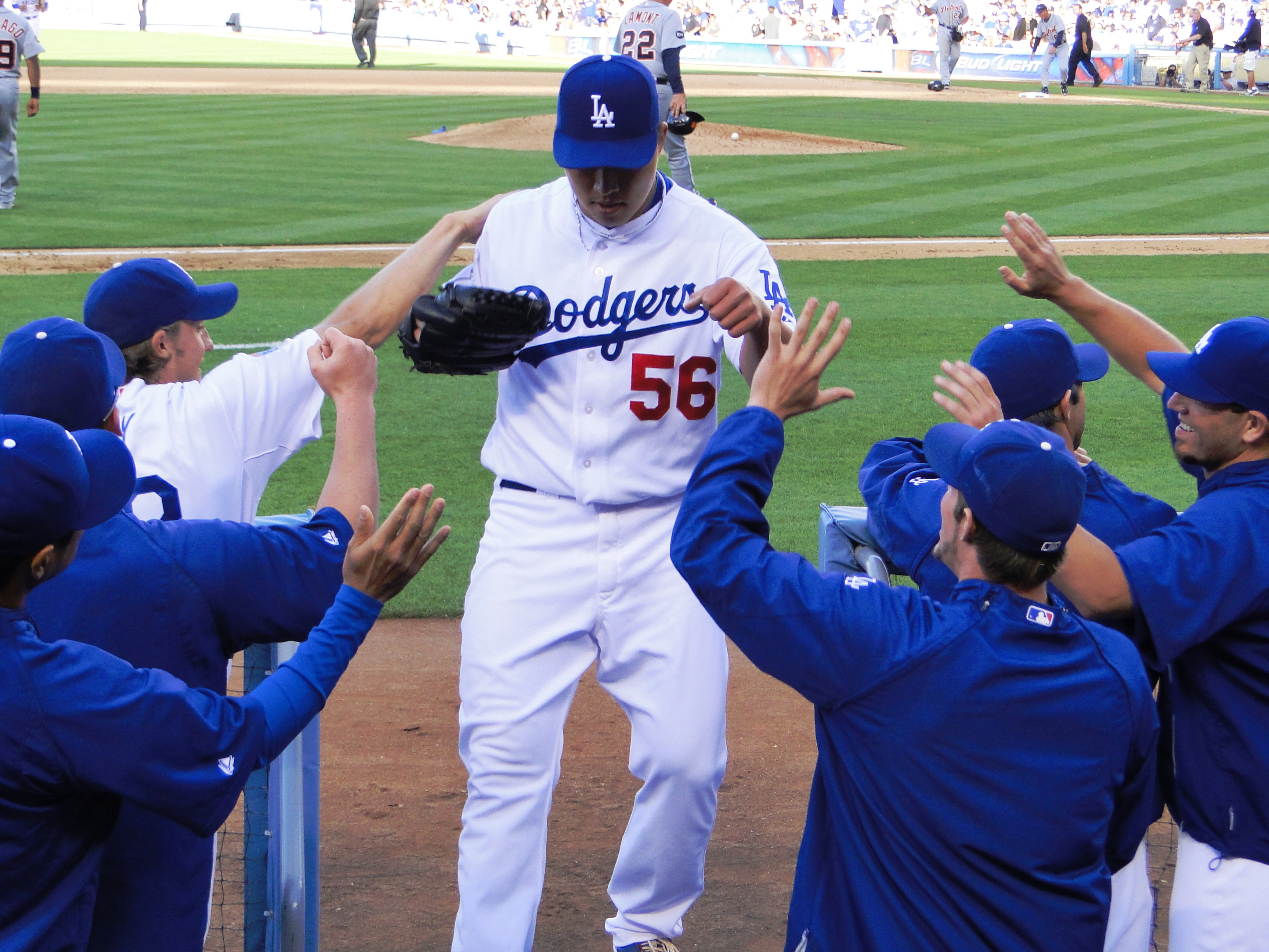 Hong-Chih Kuo is greeted by teammates after getting Miguel Cabrera to tap out to Kuo with the bases loaded on 22 May 2010 Bân-lâm-gú: Kueh Hông-tsì. 郭泓志